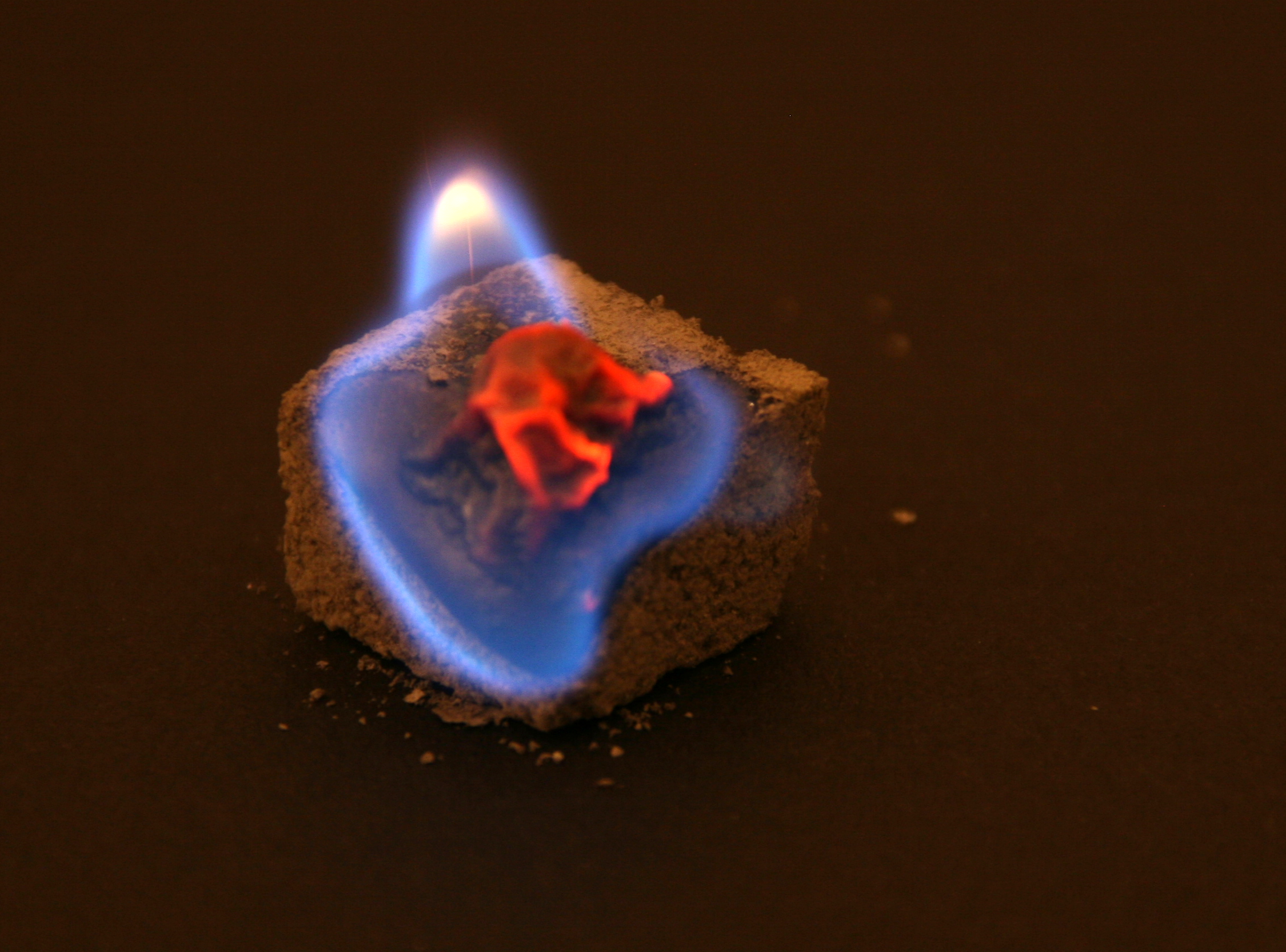 Burning cube sugar - with ash as catalyst